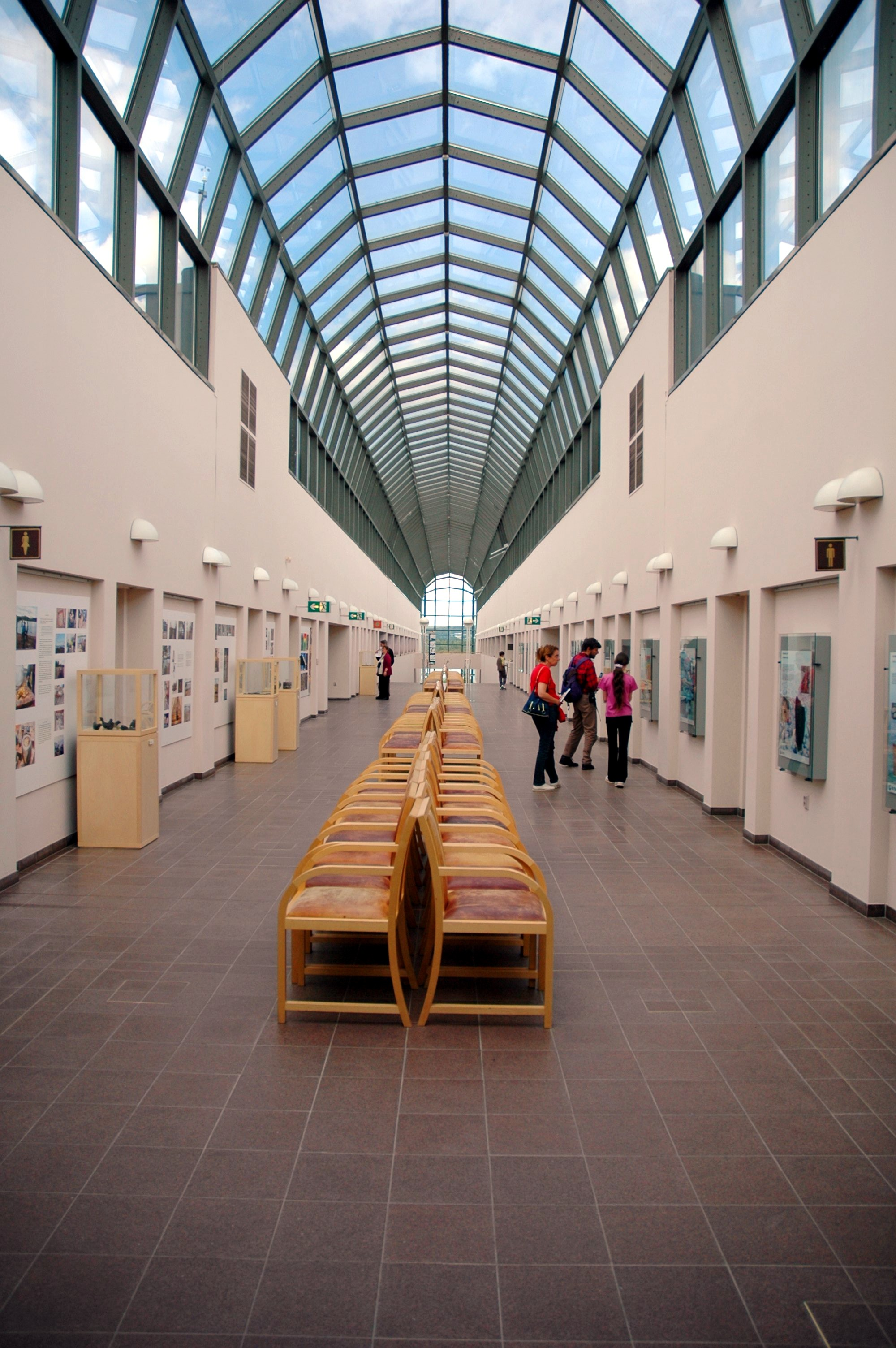 Artikum Museum in Rovaniemi, Finland